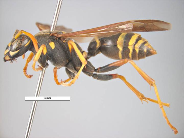 Polistes chinensis antennalis female. Norfolk Island 3-12 Oct 2000, M. & G. De Baar